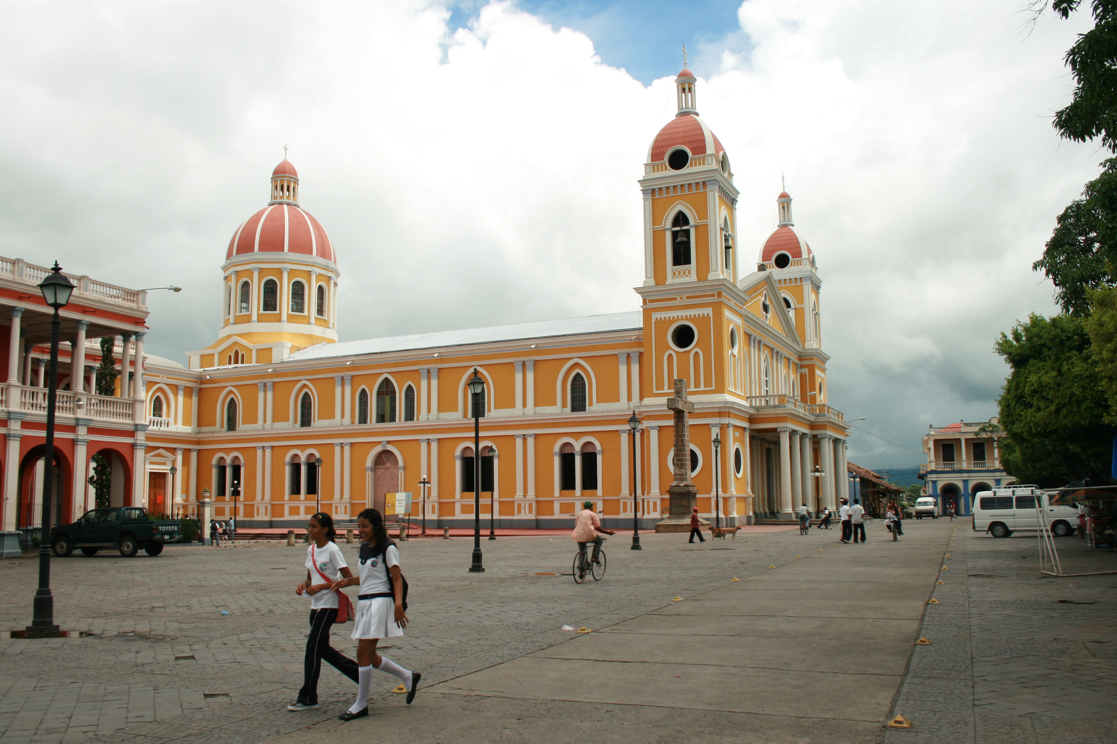 Granada Cathedral, Nicaragua.